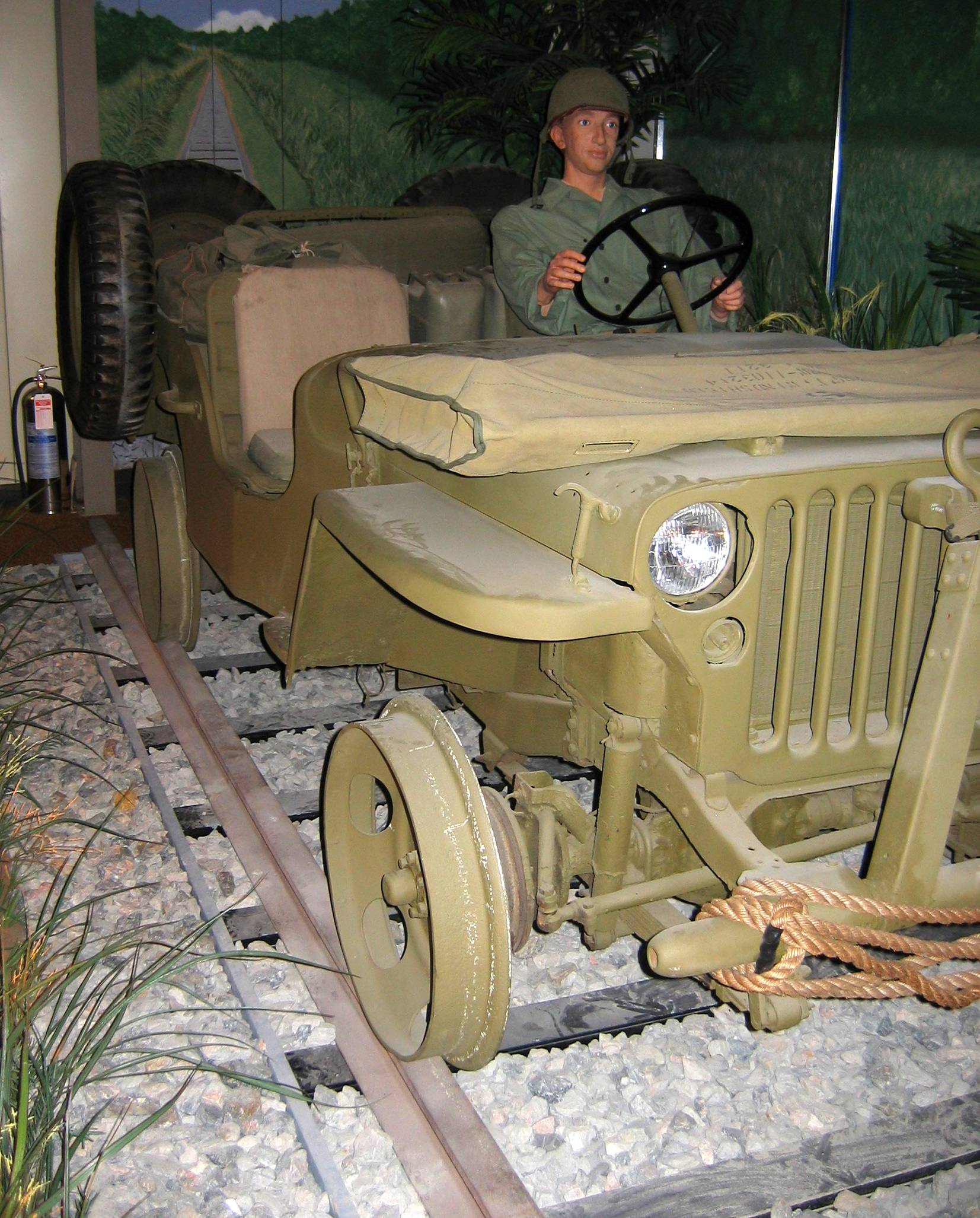 Hi-Rail Jeep - Ford GPW, as a front frame crossmember suggests. I took this photo and release it to the public domain.